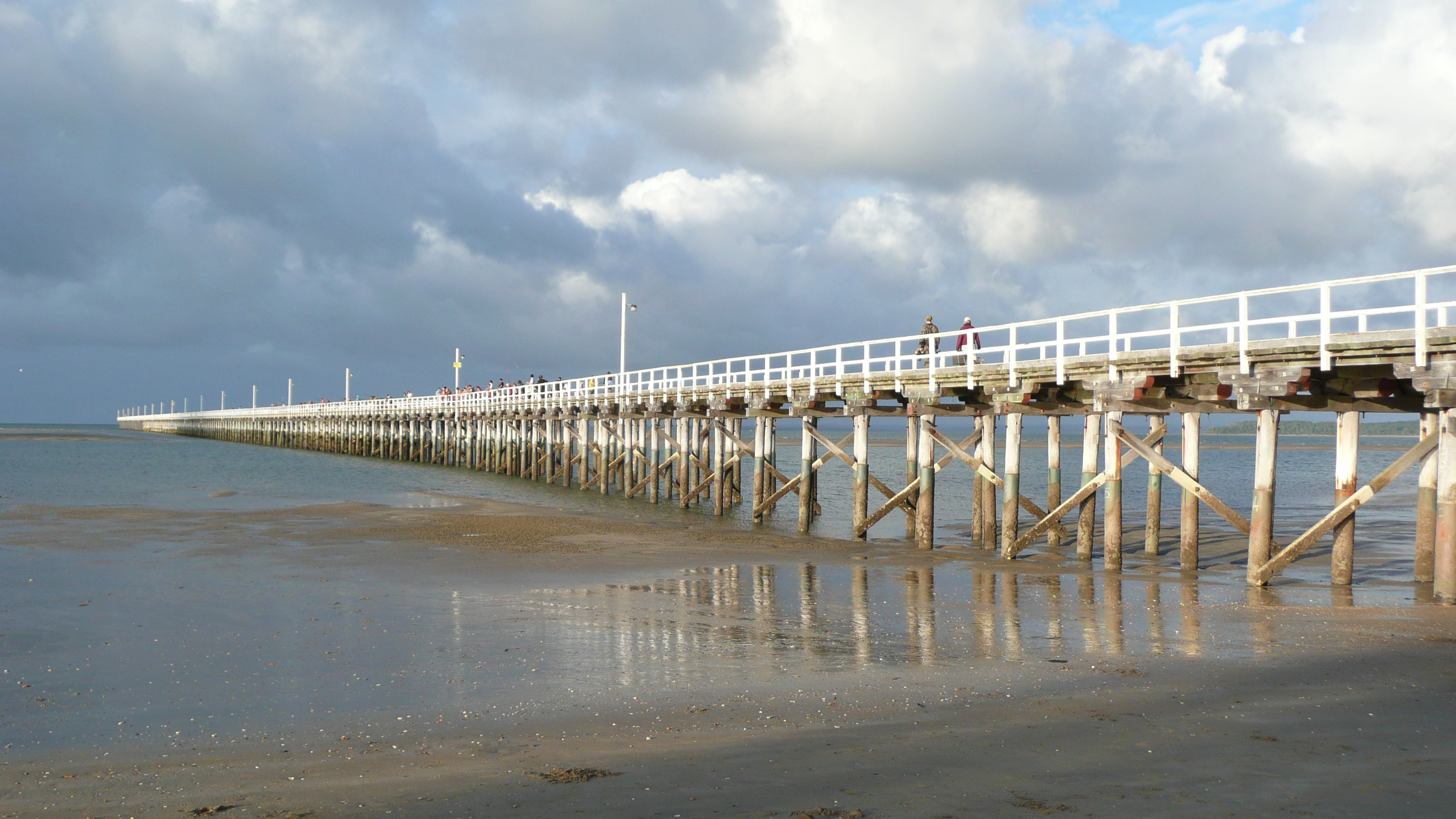 Urangan Pier at sunset